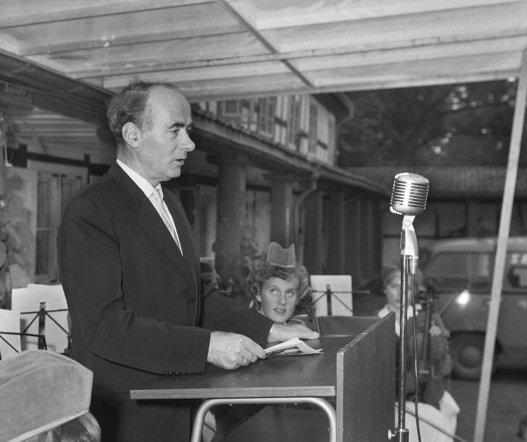 Trygve Bratteli was a Norwegian politician from the Labour Party and Prime Minister of Norway in 1971–1972 and 1973–1976.